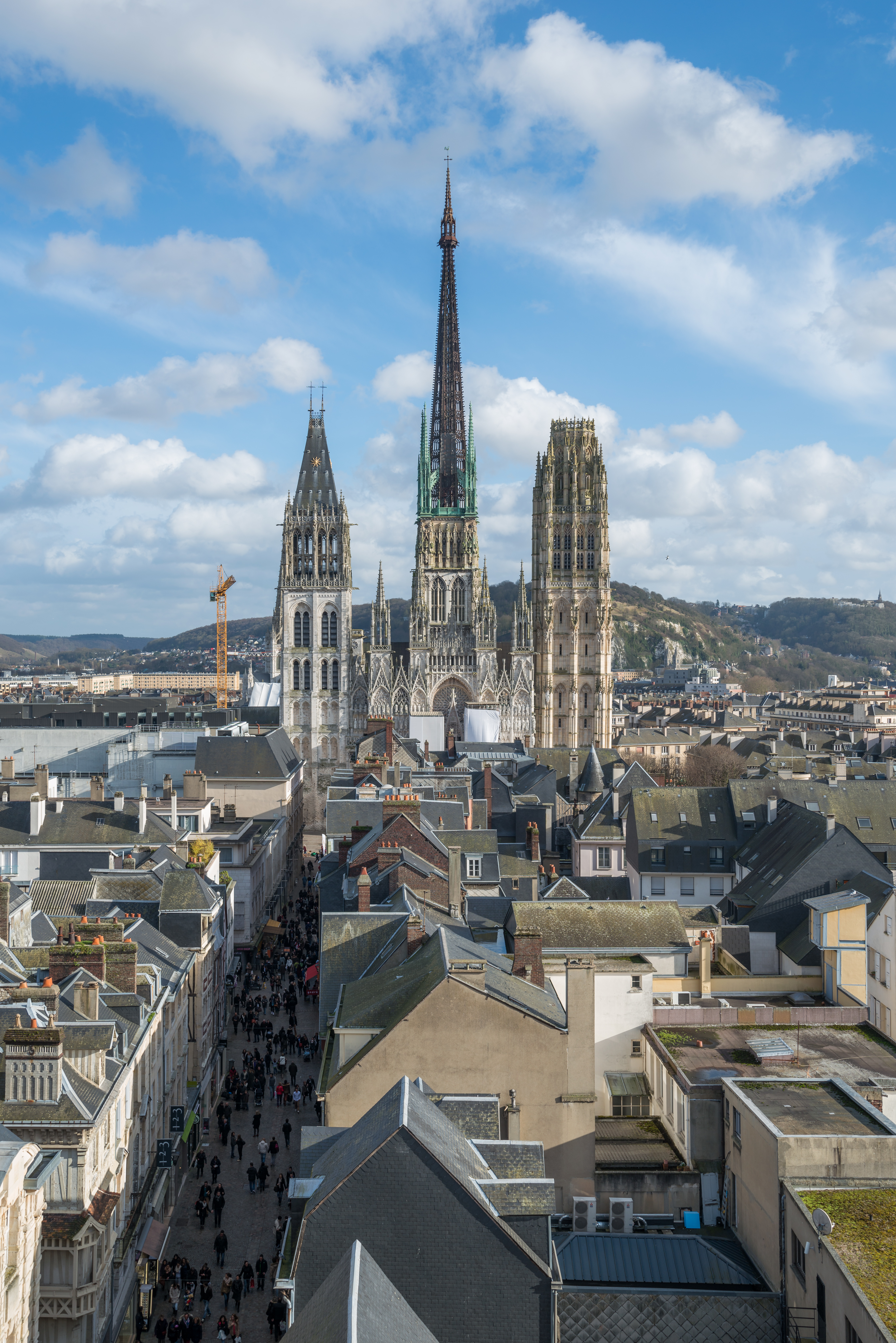 The Rouen Cathedral and Rue de Gros Horloge as seen from the Gros Horloge tower